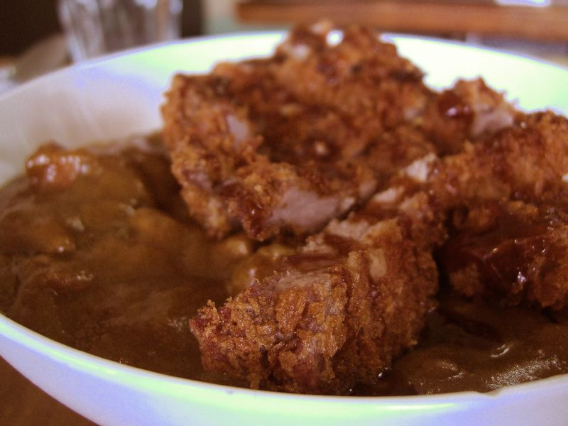 Curry Katsu Don - AsatsukiI thought it looked a bit different from the Katsu Curry Don last time, but I guess it was just the garnish. :)Asatsuki 458 Waverley Rd Malvern East 3145(03) 9572 0200